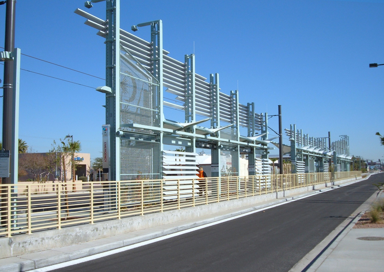 Photograph of the 24th Street (or Washington at 24th Street) Station of METRO Light Rail that serves the Phoenix area, Arizona, USA. This is a photograph of the westbound platform, about 400 feet north of the eastbound platform. This photograph was taken during the light rail's grand opening celebration on December 28, 2008.